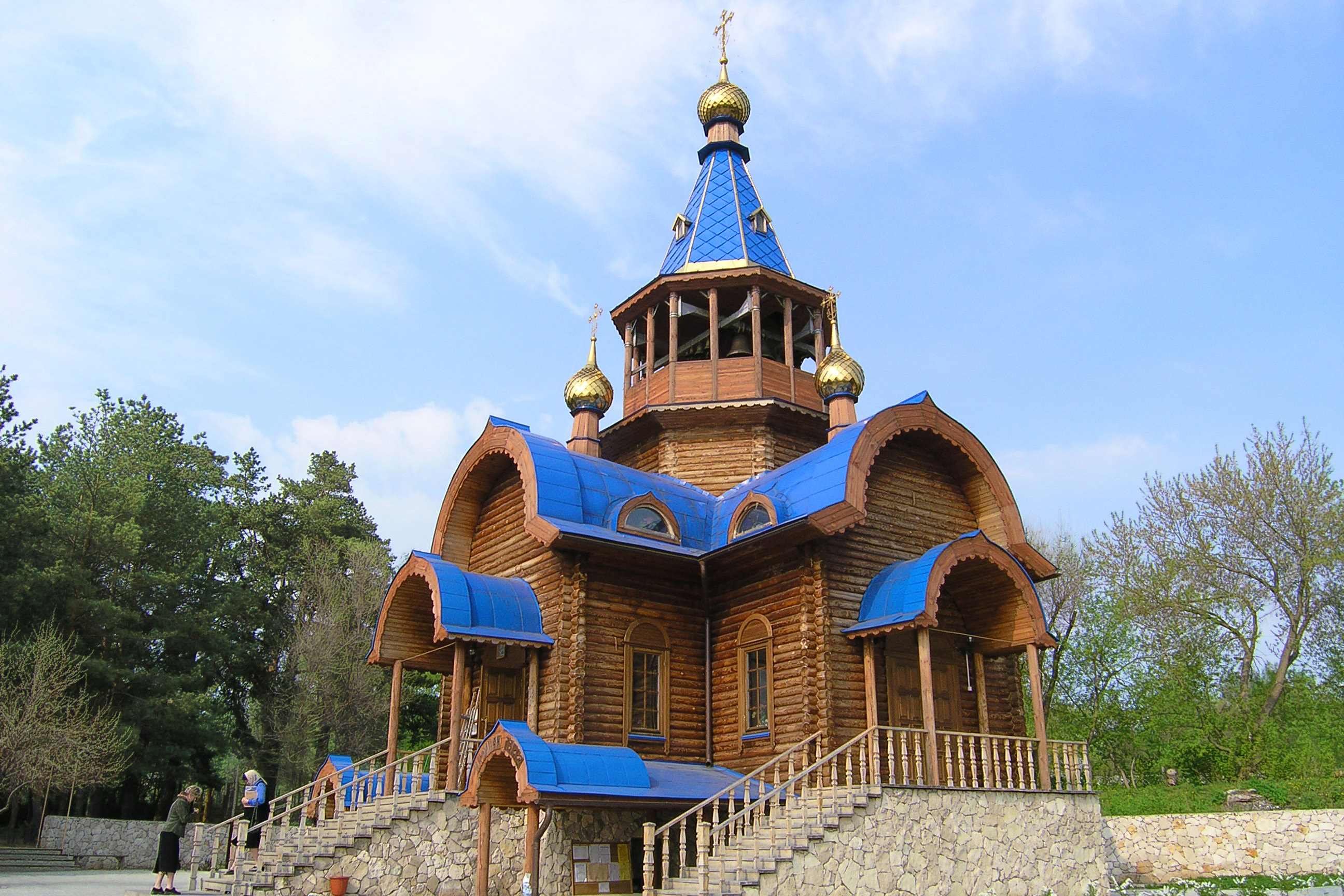 Church Assumption of Mary, Togliatti, Russia